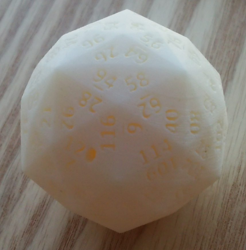 D120 hexakis octahedron